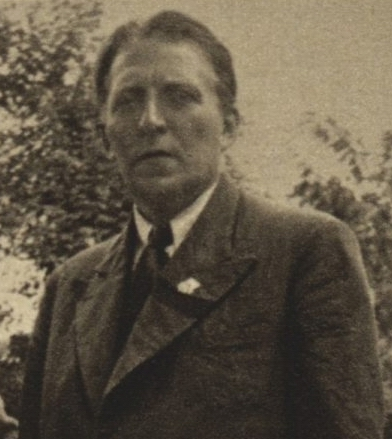 Jiří Mařánek, Czech writer